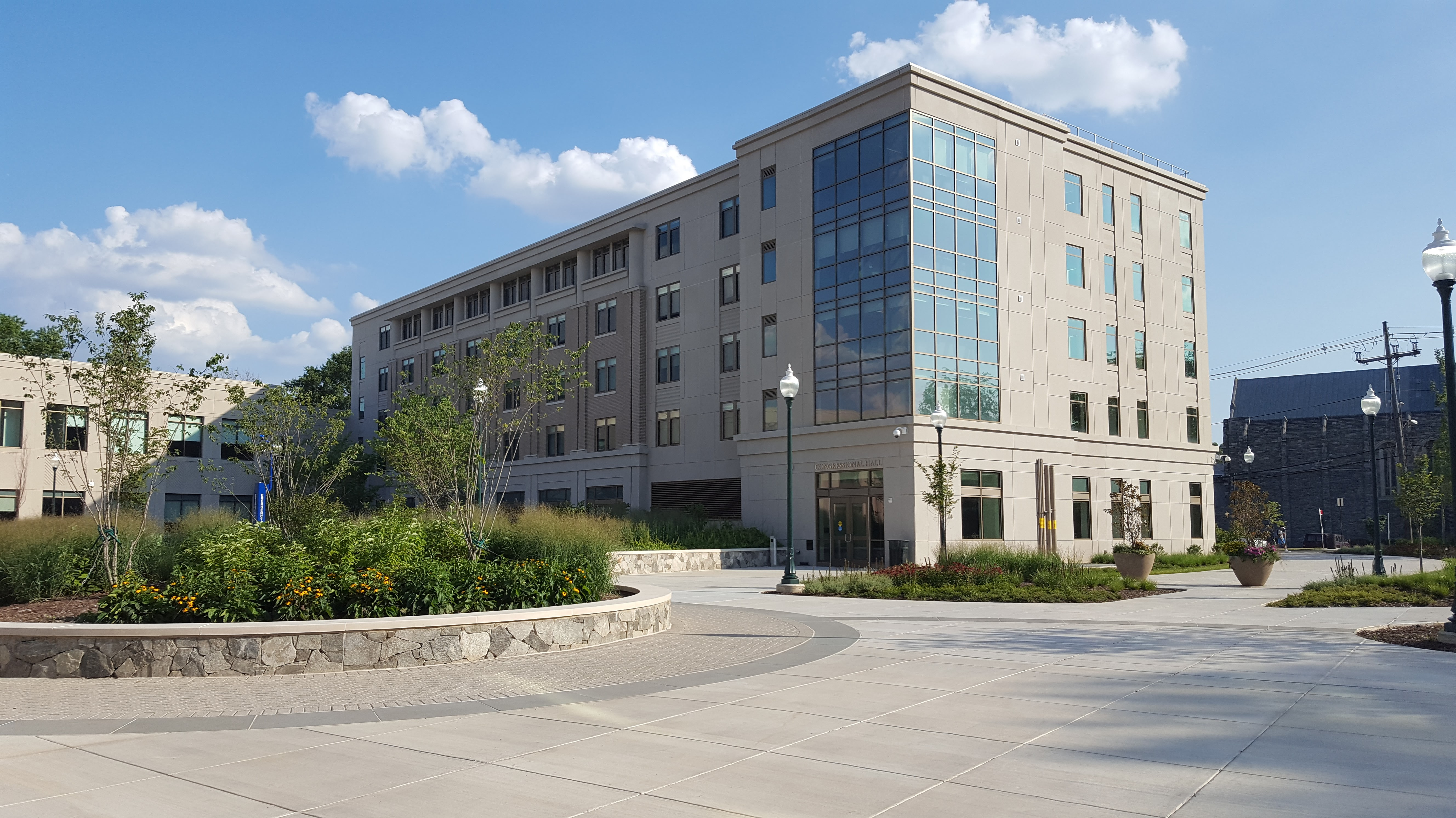 Congressional Hall